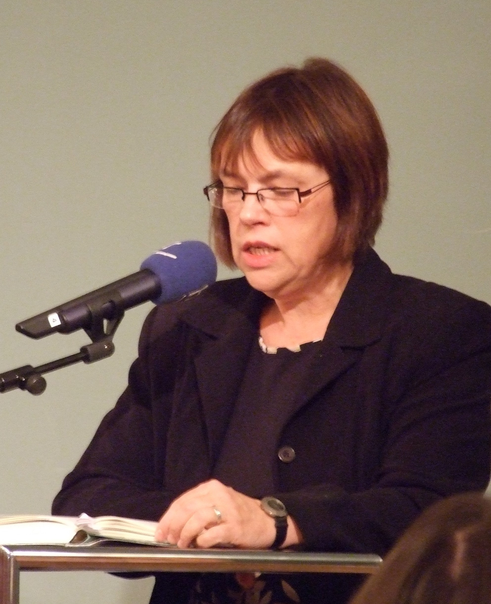 Kathrin Schmidt, German writer, at shortlist presentation ("Deutscher Buchpreis" 2009) in Frankfurt am Main, Germany